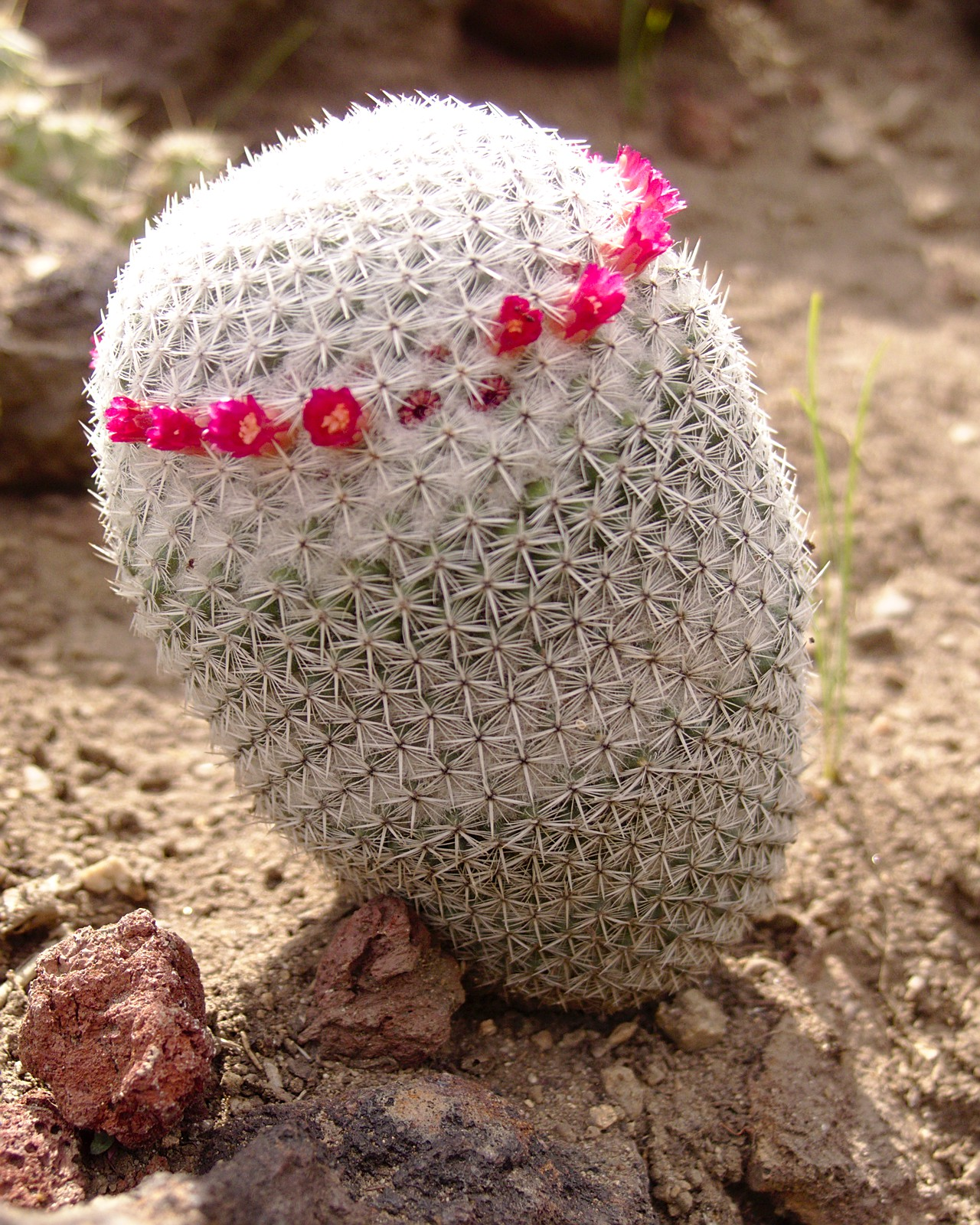 A flowering Mammillaria albilanata at the Huntington Desert Garden in San Marino, California.